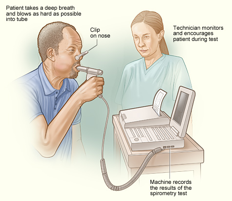 The image shows how spirometry is done. The patient takes a deep breath and blows as hard as possible into a tube connected to a spirometer. The spirometer measures the amount of air breathed out. It also measures how fast the air was blown out.